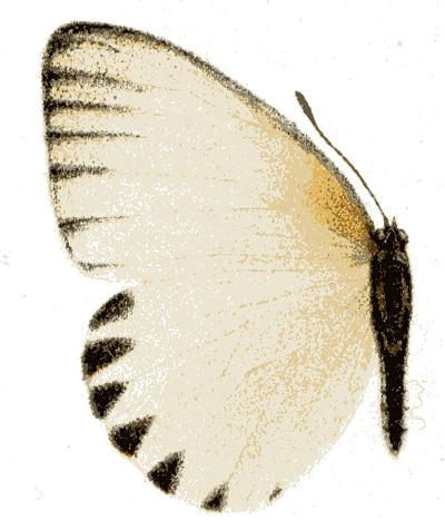 SeitzFaunaAfricanaXIII Appias sabina (C. & R. Felder, [1865])